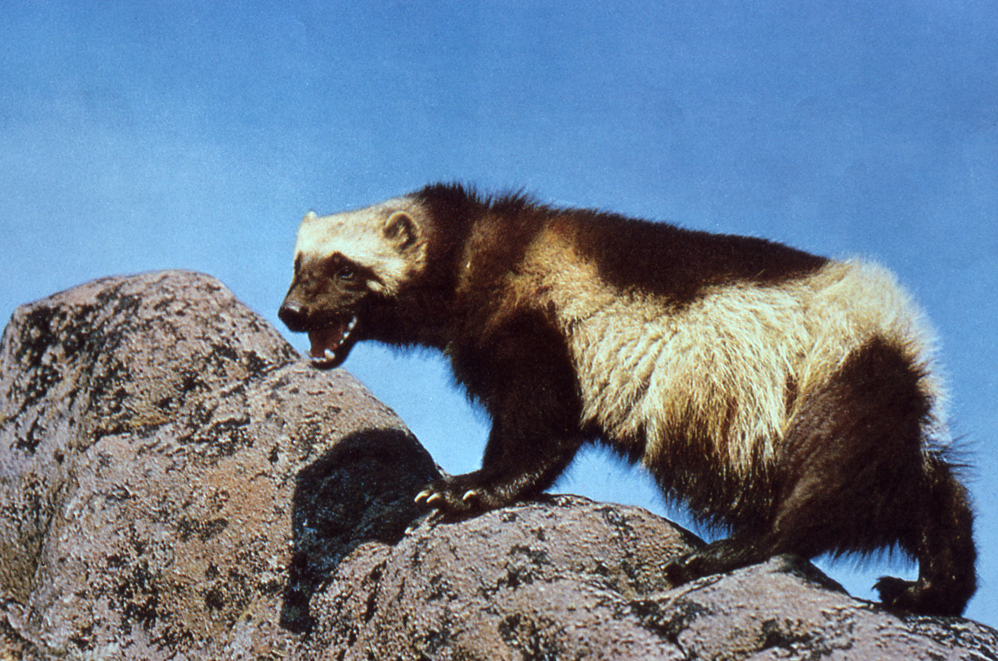 Photo Credit: NPS